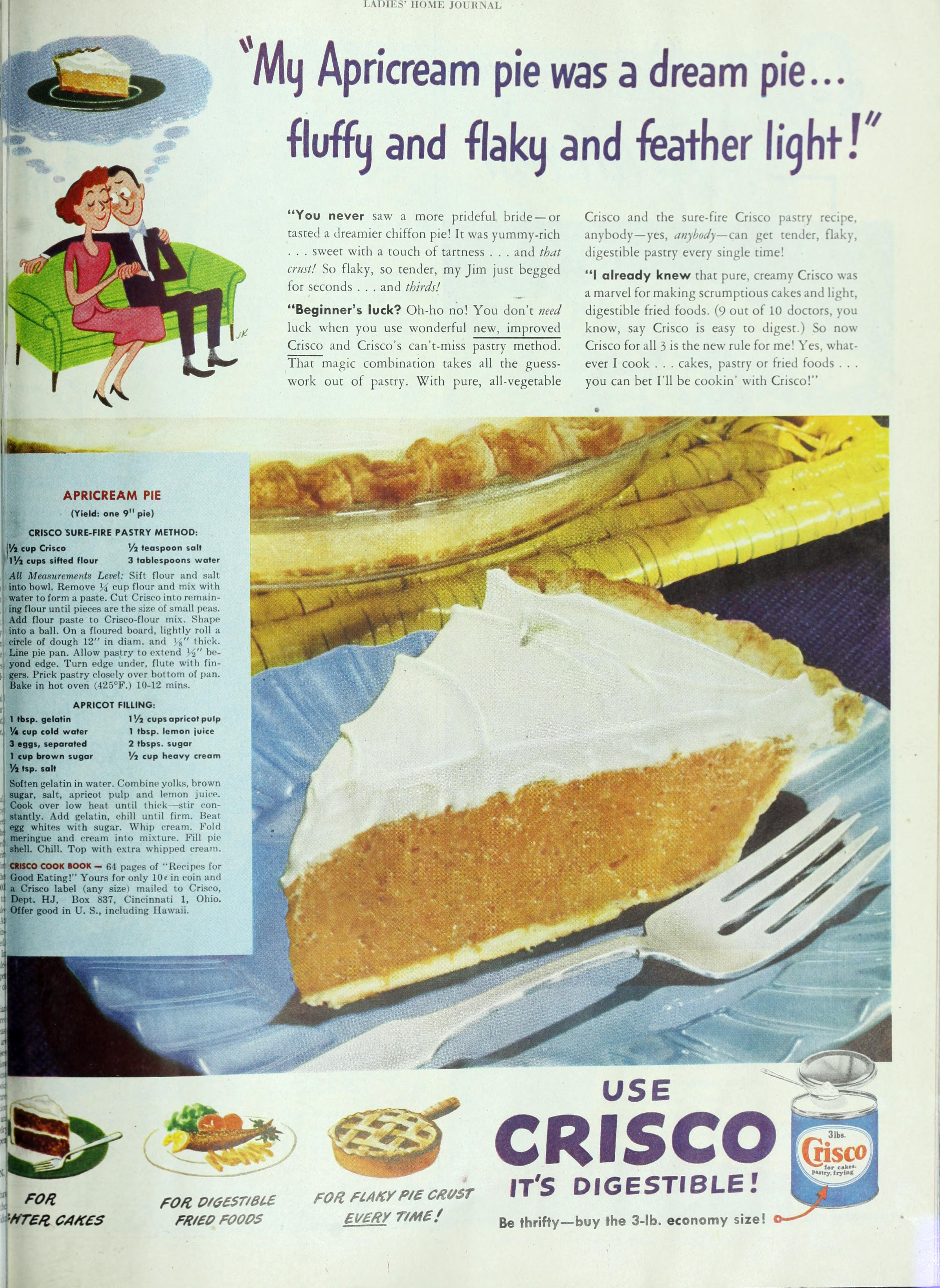 Title: The Ladies' home journal Year: 1889 (1880s) Authors: Wyeth, N. C. (Newell Convers), 1882-1945 Subjects: Women's periodicals Janice Bluestein Longone Culinary Archive Publisher: Philadelphia : (s.n.) Text Appearing Before Image: Mq Apricream pie was a dream pie...fluffy and flaky and feather light! You never saw a more prideful bride —ortasted a dreamier chiffon pie! It was yummy-rich. . . sweet with a touch of tartness . . . and thatcrust! So flaky, so tender, my Jim just beggedfor seconds . . . and thirds! Beginners luck? Oh-ho no! You dont needluck when you use wonderful new, improvedCrisco and Criscos cant-miss pastry method.That magic combination takes all the guess-work out of pastry. With pure, all-vegetable Crisco and the sure-fire Crisco pastry recipe,anybody—yes, anybody— can get tender, flaky,digestible pastry every single time! I already knew that pure, creamy Crisco wasa marvel for making scrumptious cakes and Light,digestible fried foods. (9 out of 10 doctors, youknow, say Crisco is easy to digest.) So nowCrisco for all 3 is the new rule for me! Yes, what-ever I cook . . . cakes, pastry or fried foods . . .you can bet Ill be cookin with Crisco! Text Appearing After Image: '